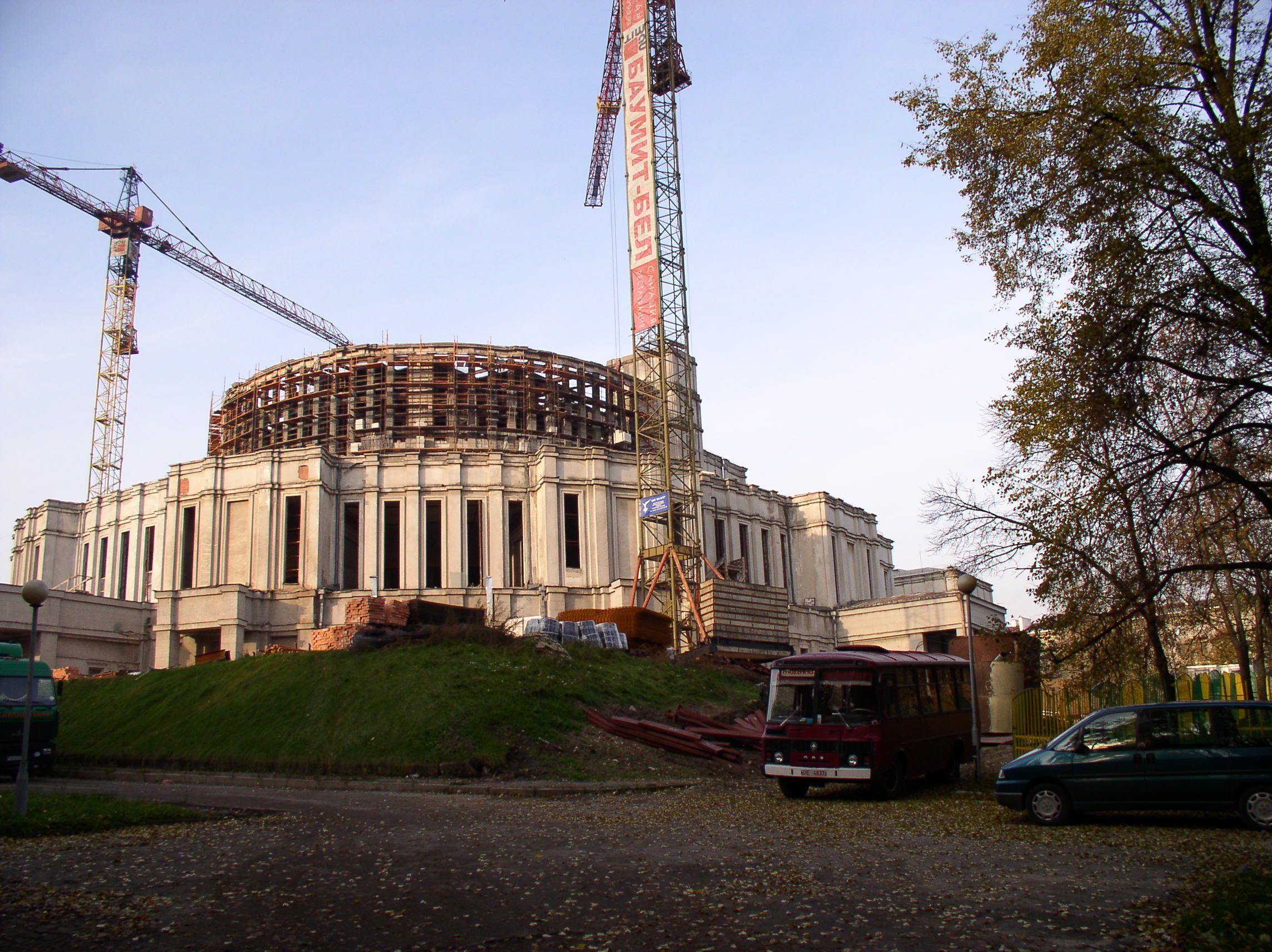 Reconstruction of National Academic Opera and Ballet Theatre. Minsk, Belarus.